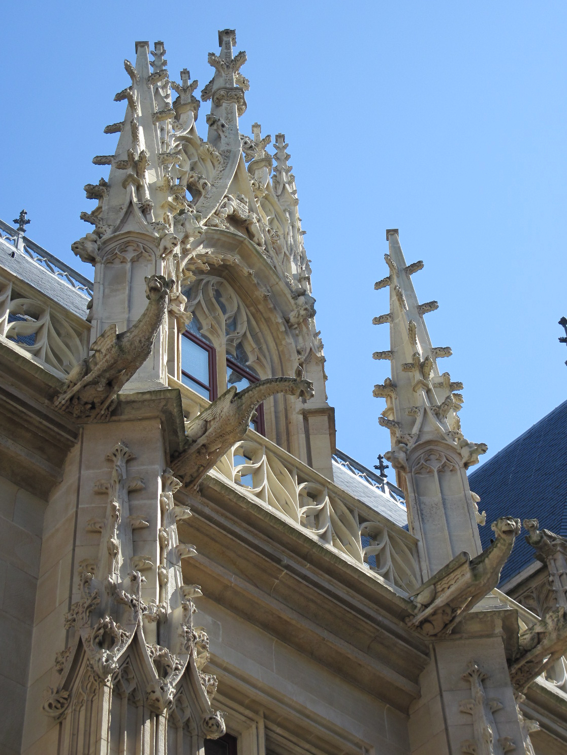 Law courts, Rouen, August 2009